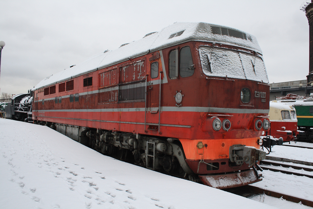 Diesel locomotive TEP80-0002 (speed record - 271 km/h)